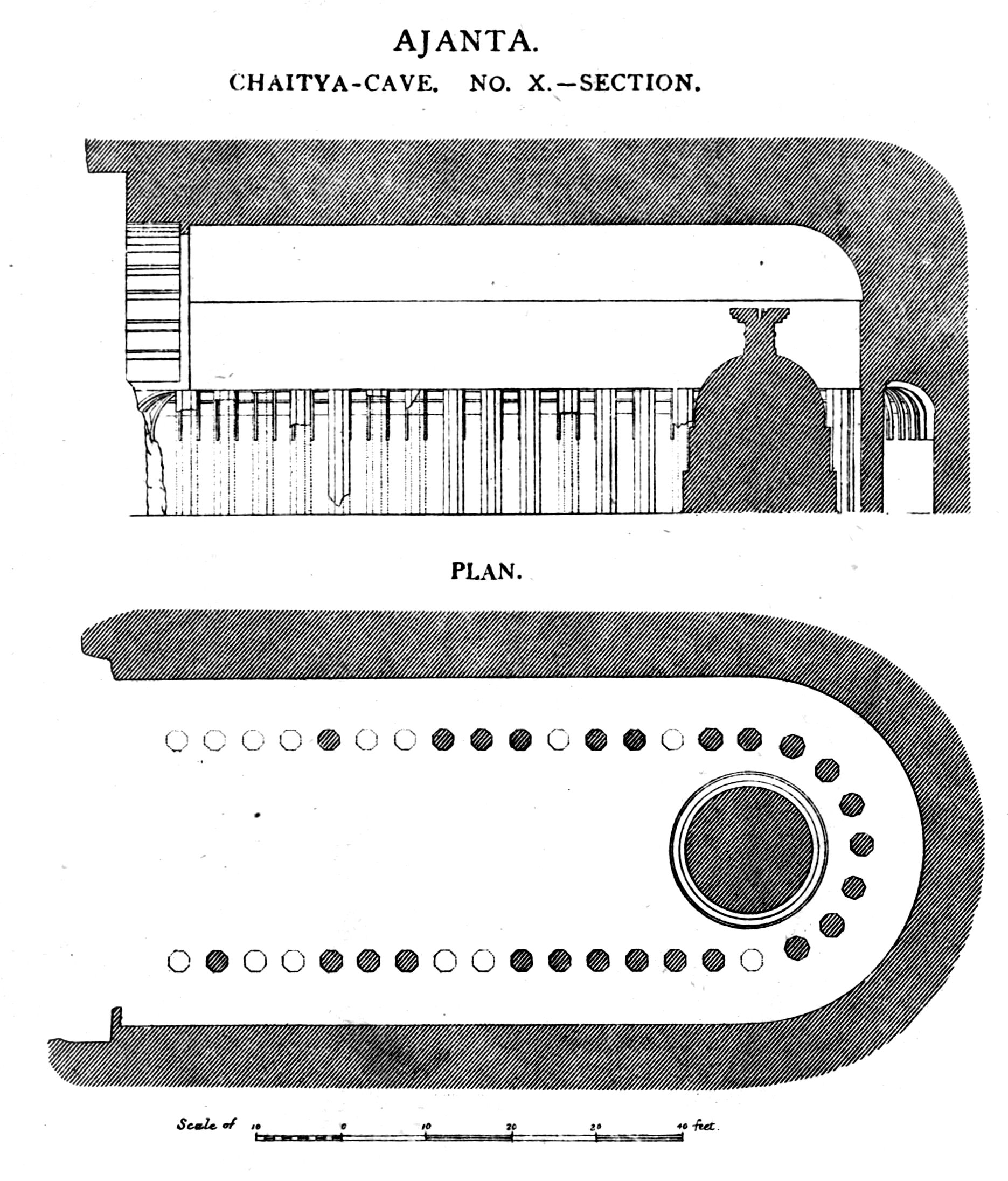 Ajanta Chaitya 10 plan